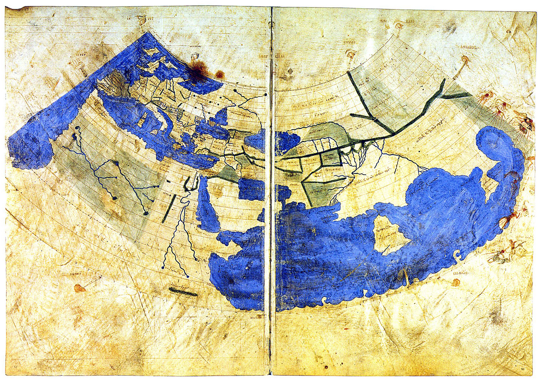 A Byzantine Greek world map according to Ptolemy's first (conic) projection. From Codex Vaticanus Urbinas Graecus 82, Constantinople c. 1300. Parchment 575 x 418 mm. Probably assembled by Maximus Planudes; later in possession of Palla Strozzi (1372-1462) then with Federico da Montefeltro, Duke of Urbino.